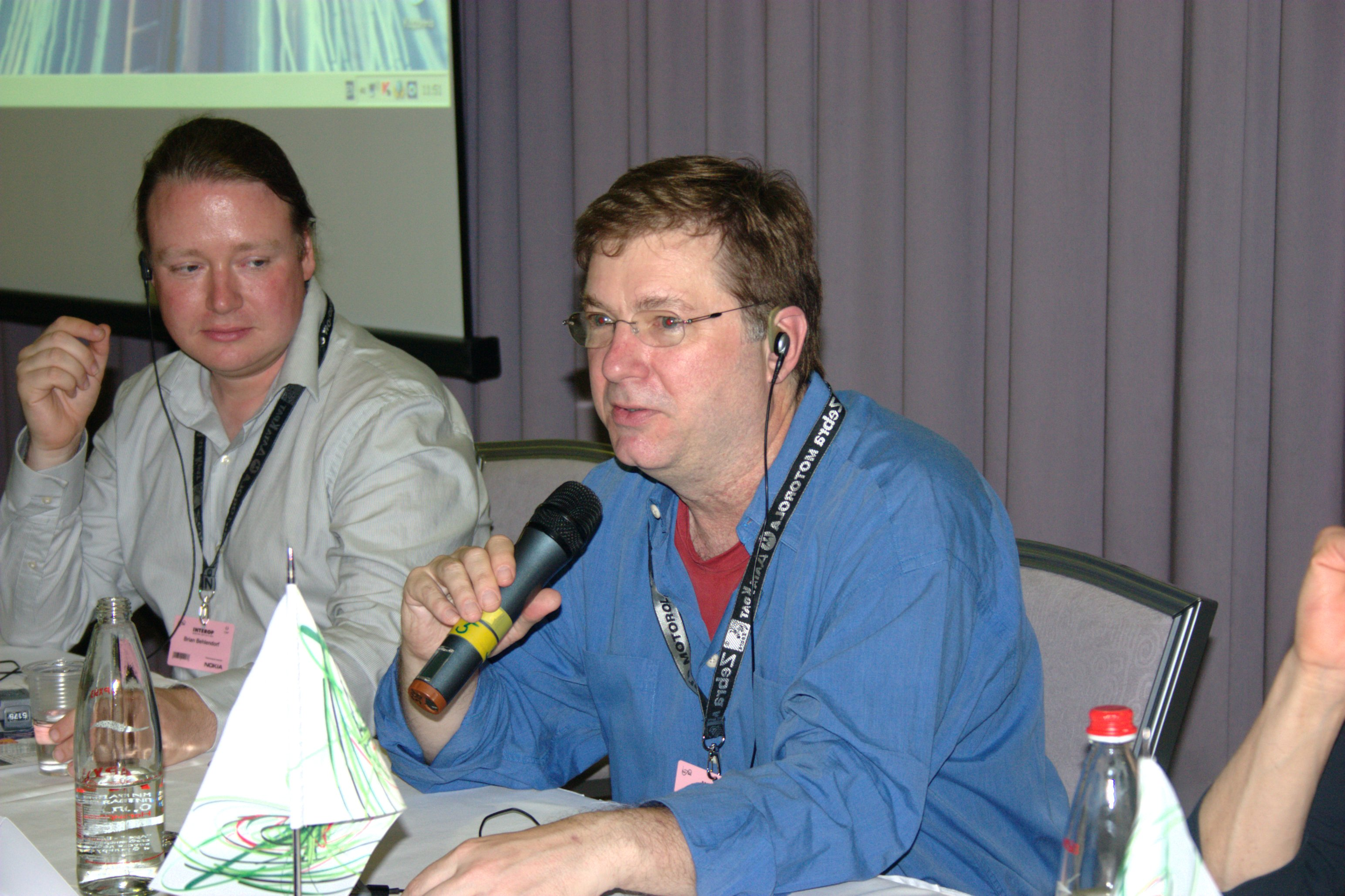 Eric Allman (in the center), Brian Behlendorf (left) at INTEROP, Moscow, 2007.